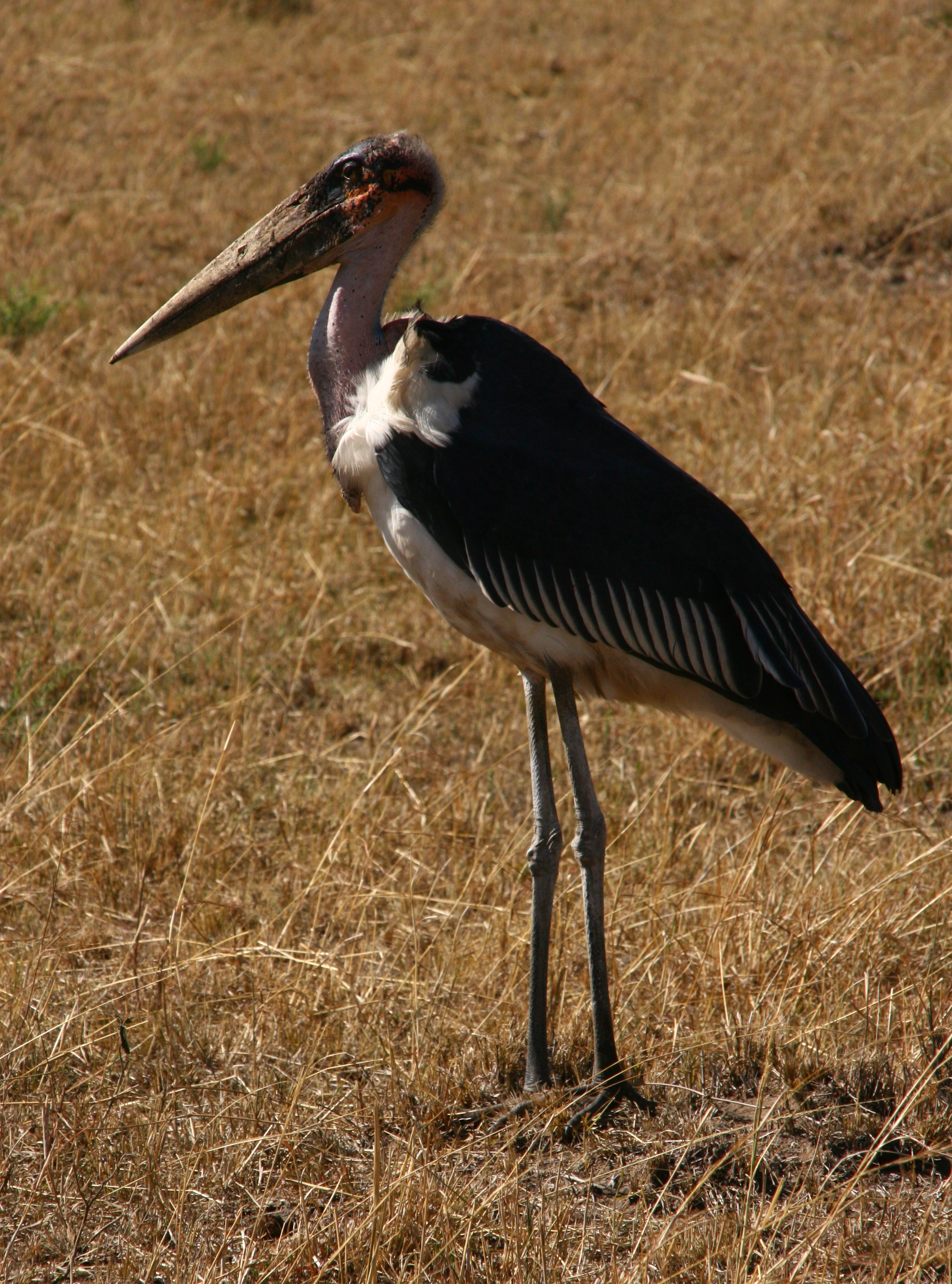 Marabou Stork in the Masai Mara, Kenya.